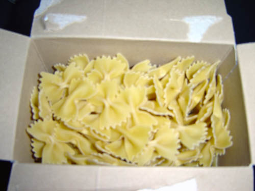 Description: farfalle pasta picture, taken by user Carioca License: GFDL